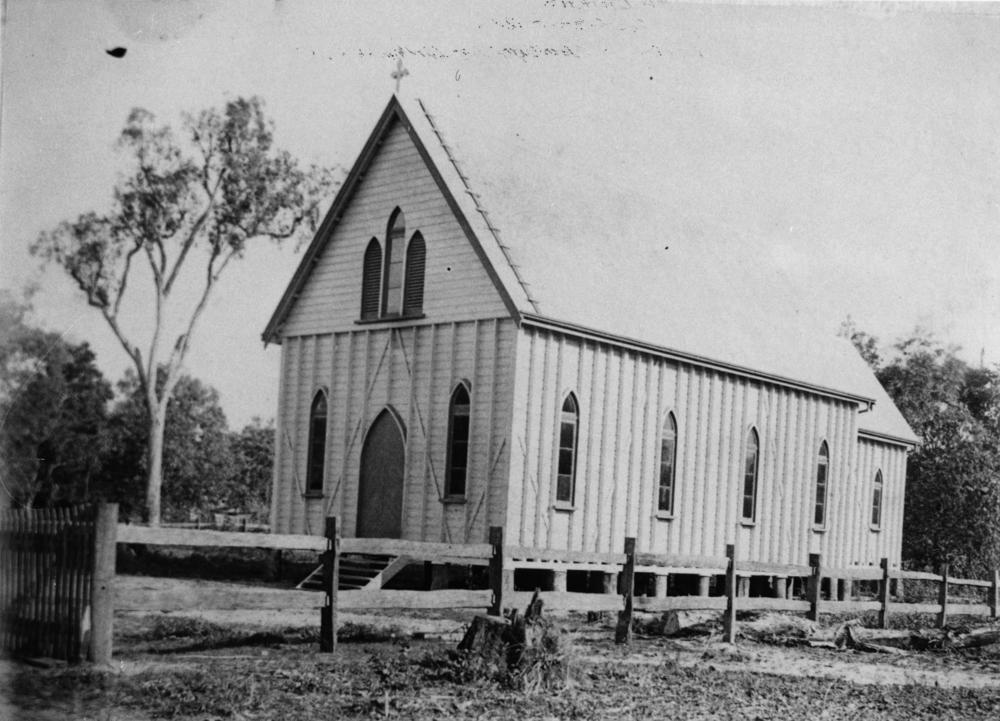 Roman Catholic Church in Cairns, 1884. Possibly St. Monica's prior to the installation of stained glass windows. The Sister of Mercy, Catholic order of nuns were established in Cairns in 1892, this is before their arrival.